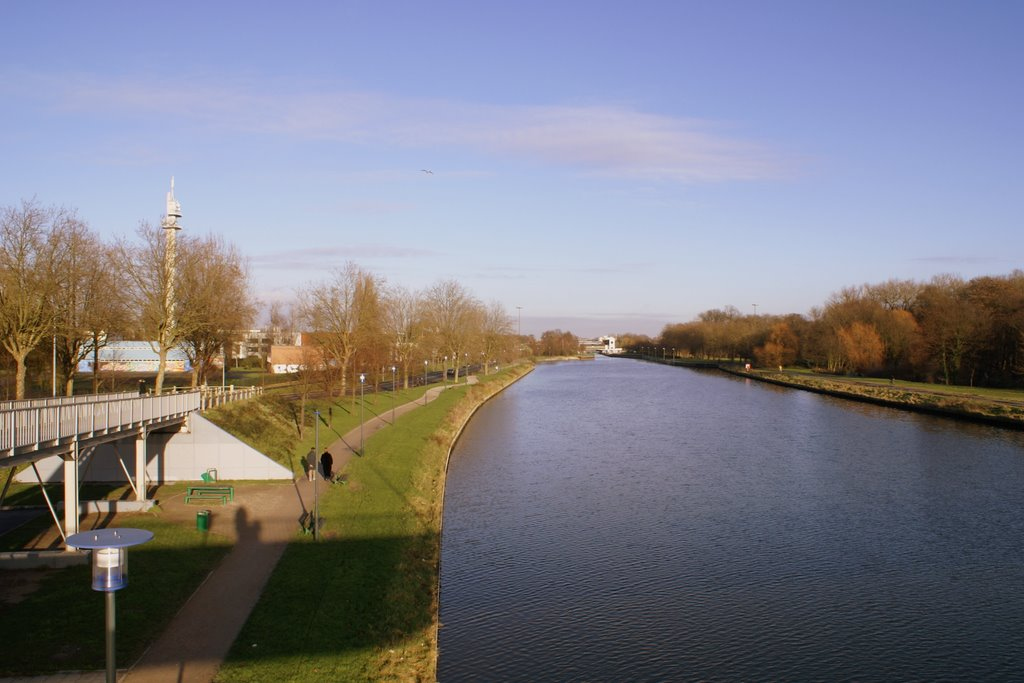 Lambersart